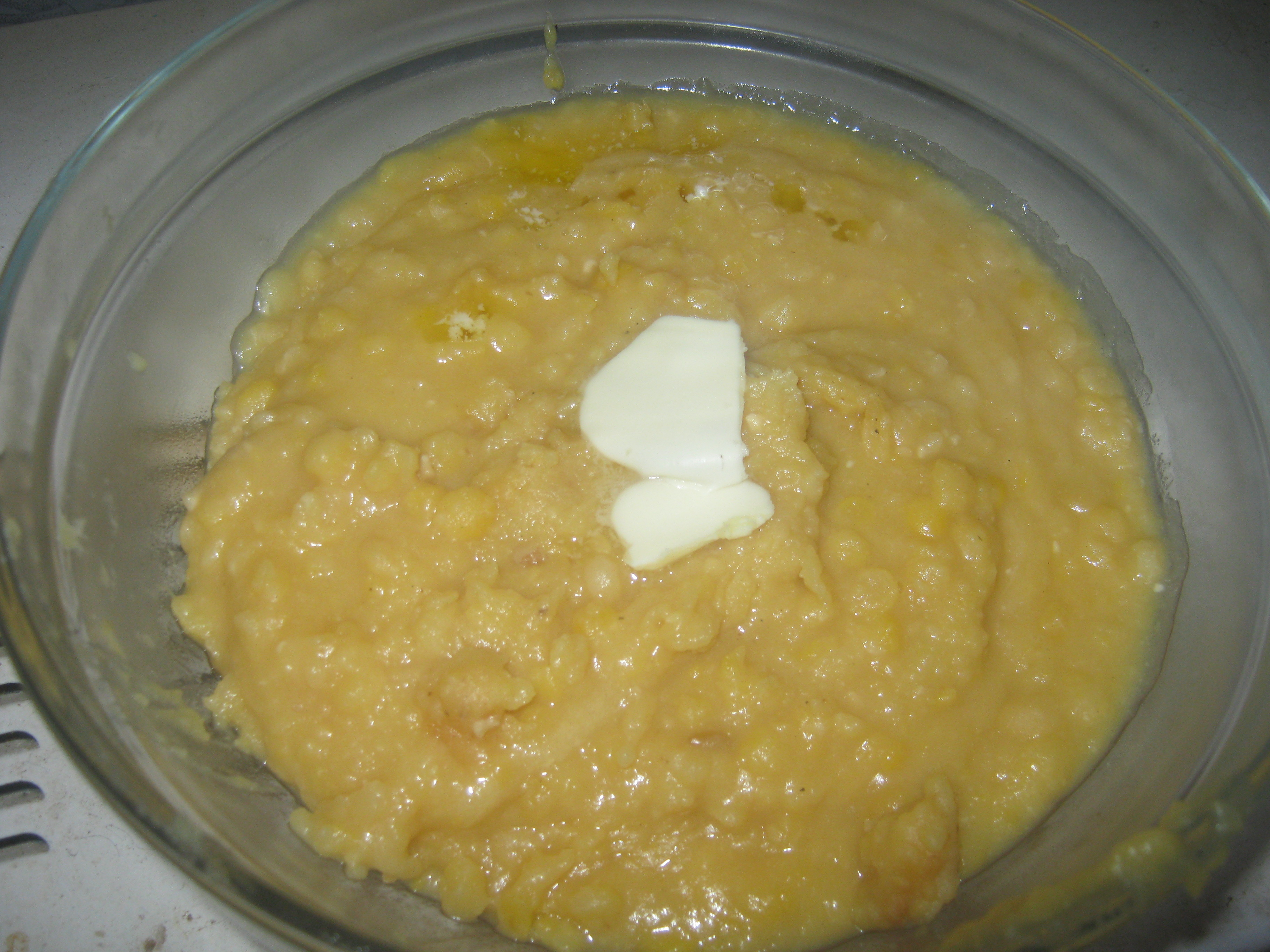 pea puree